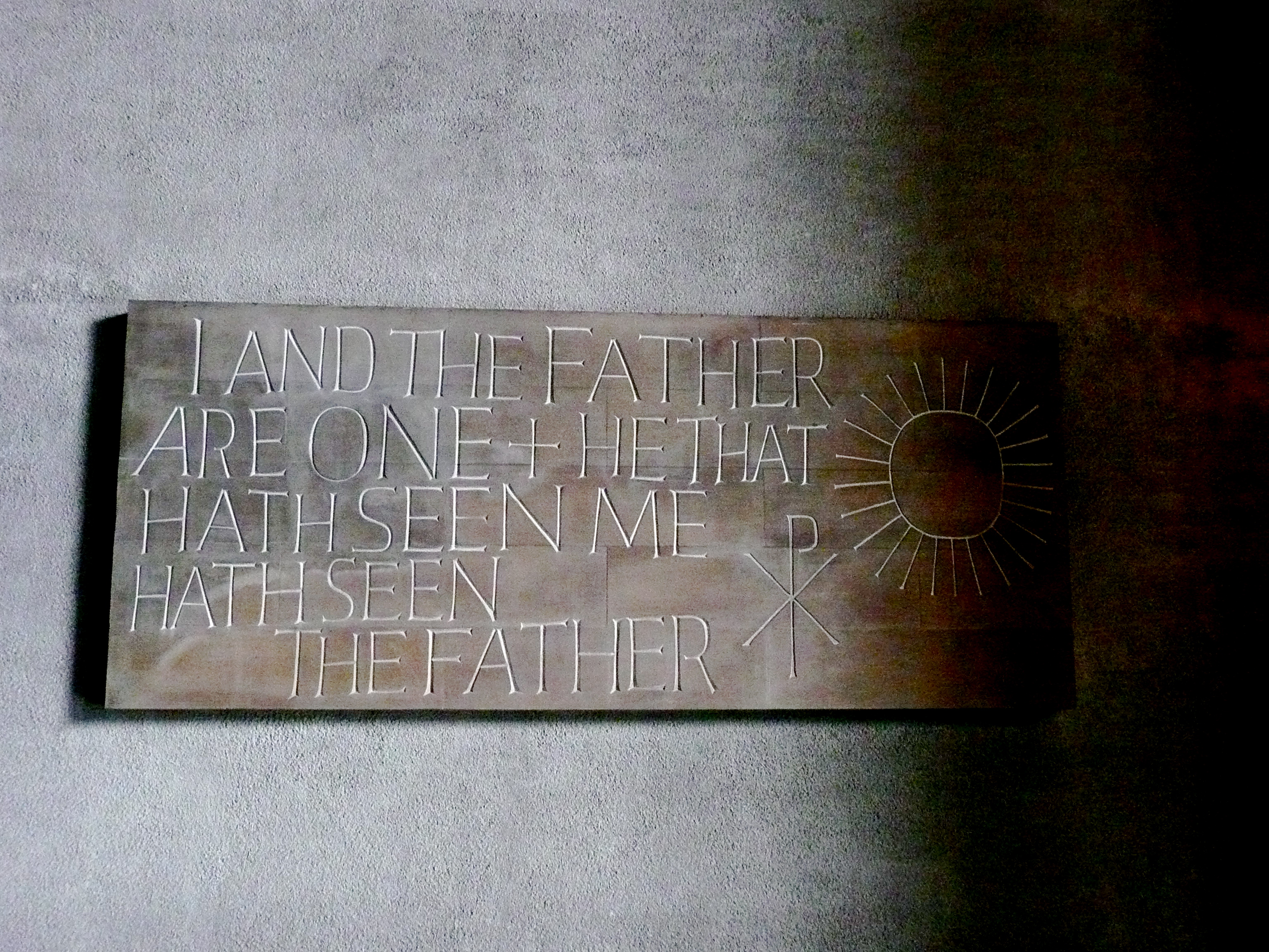 One in a series of inscriptions by Ralph Beyer known collectively as 'The Tablets of the Word'. Commissioned by Sir Basil Spence 1958-62 and installed in Coventry Cathedral.